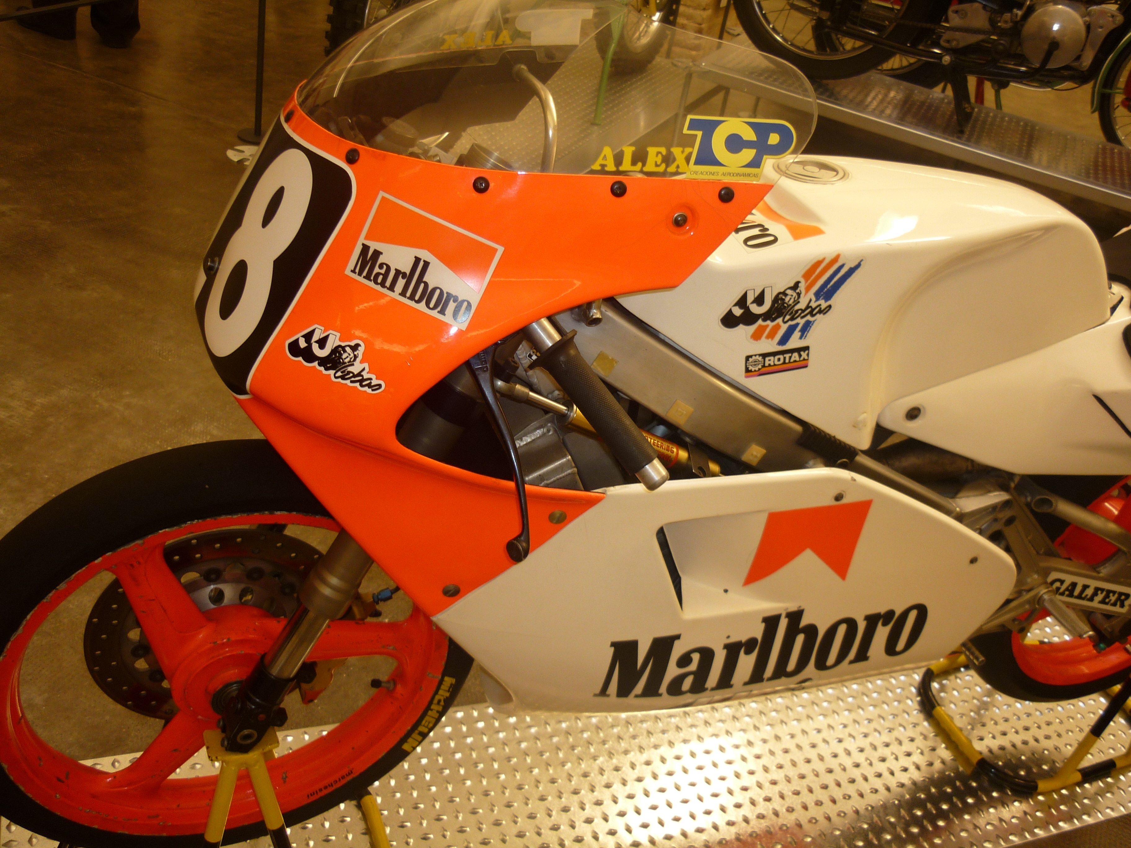 Àlex Crivillé's JJ Cobas 125cc (Rotax engine). On this bike, Crivillé won the 1989 Riders' World Championship. Museu de la Moto de Barcelona (Catalonia).